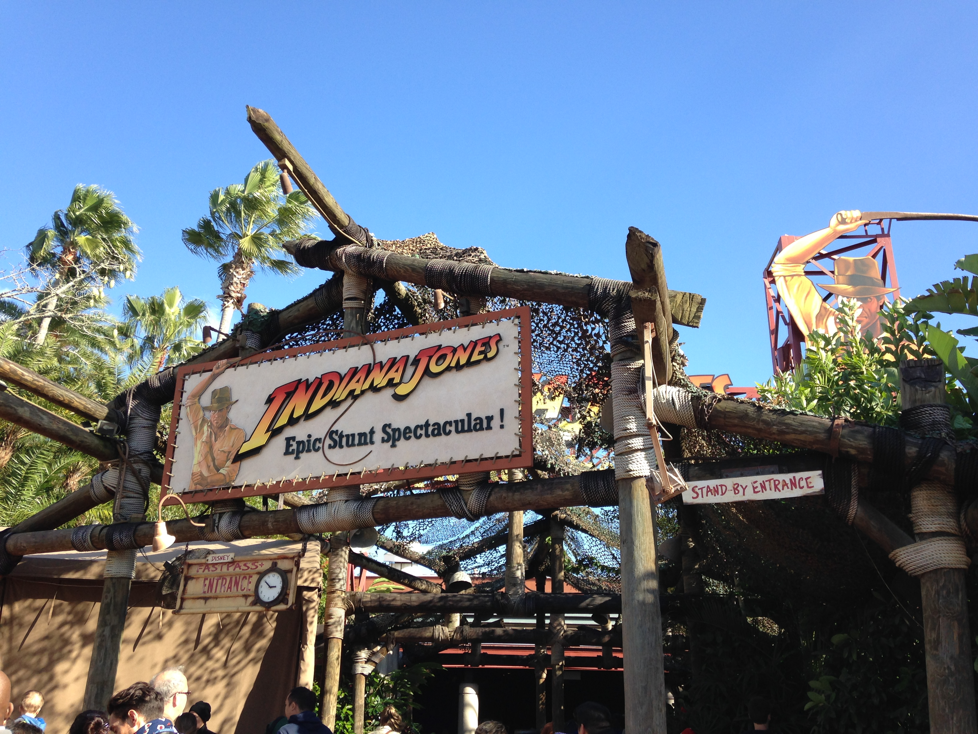 The entrance to the Indiana Jones Epic Stunt Spectacular! attraction.